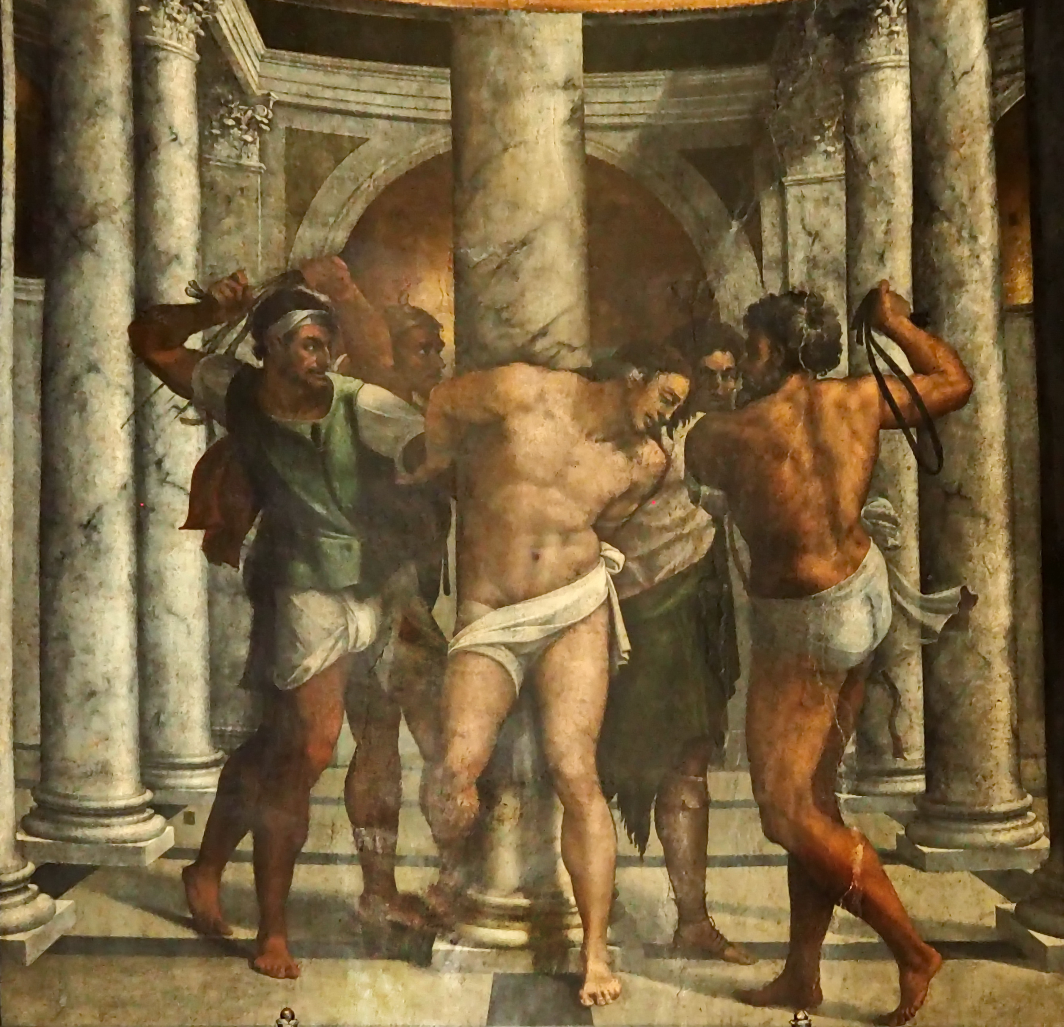 San Pietro in Montorio (Rome); Sebastiano del Piombo; the flagellation of Jesus